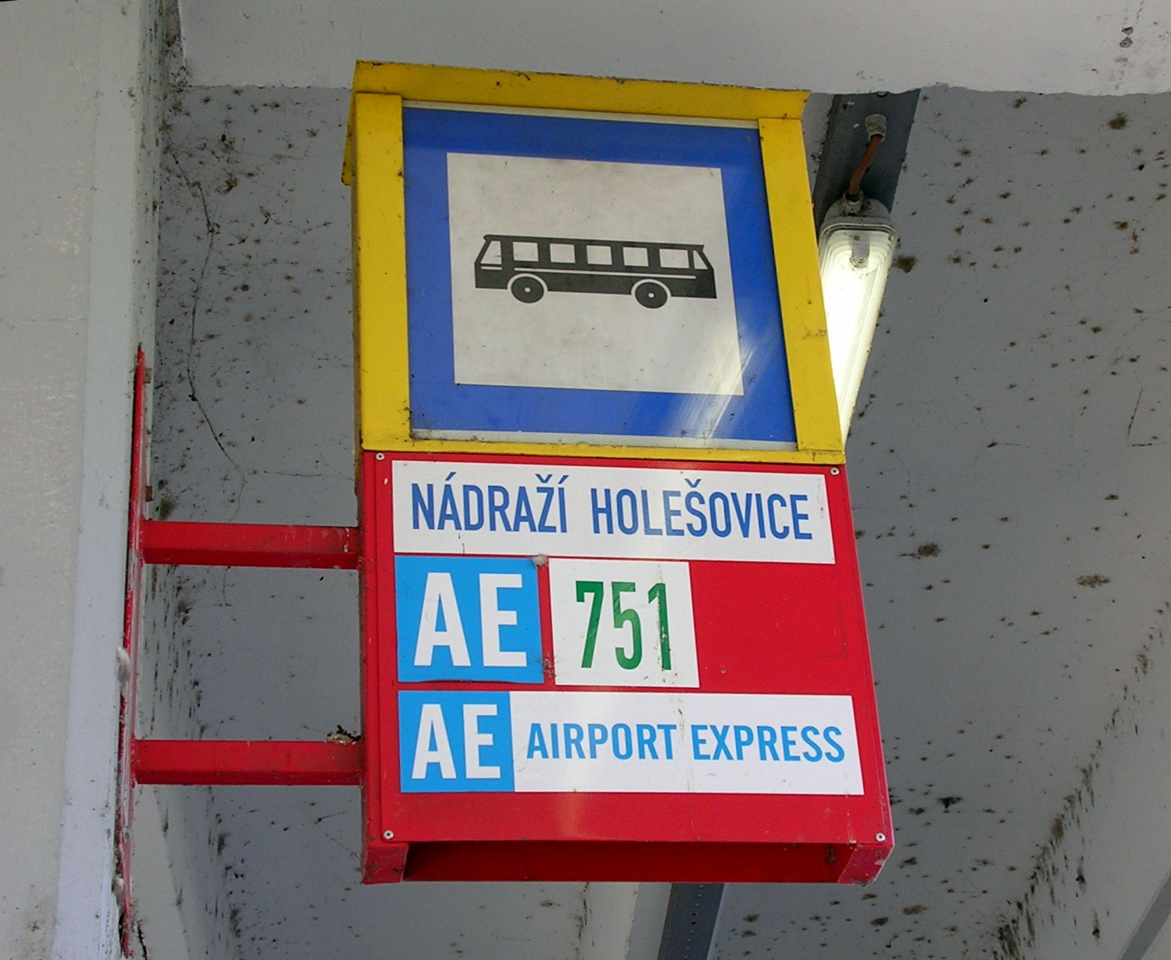 Holešovice, Prague, the Czech Republic. Nádraží Holešovice, urban bus terminal. A station of Airport Express Bus. - Google Maps - Google Earth